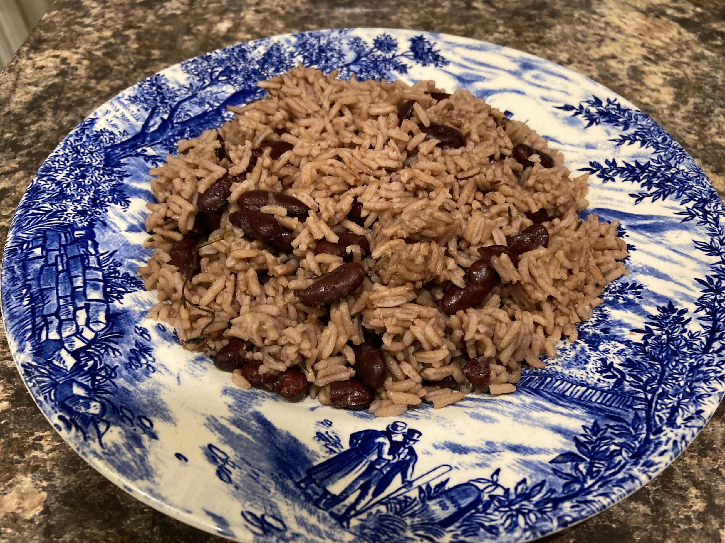 Authentic Jamaican dish of rice and Peas